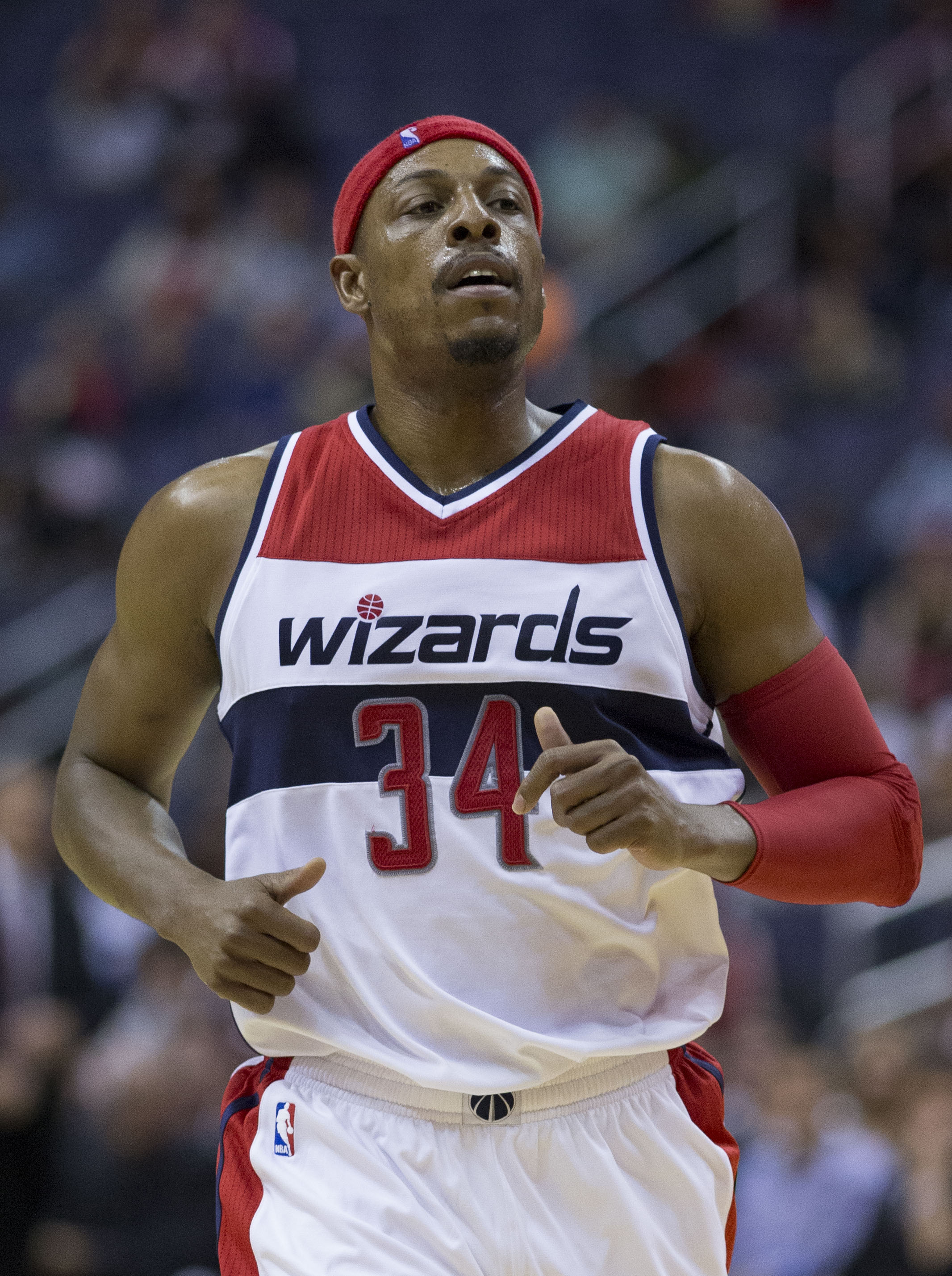 Hornets at Wizards 10/17/14